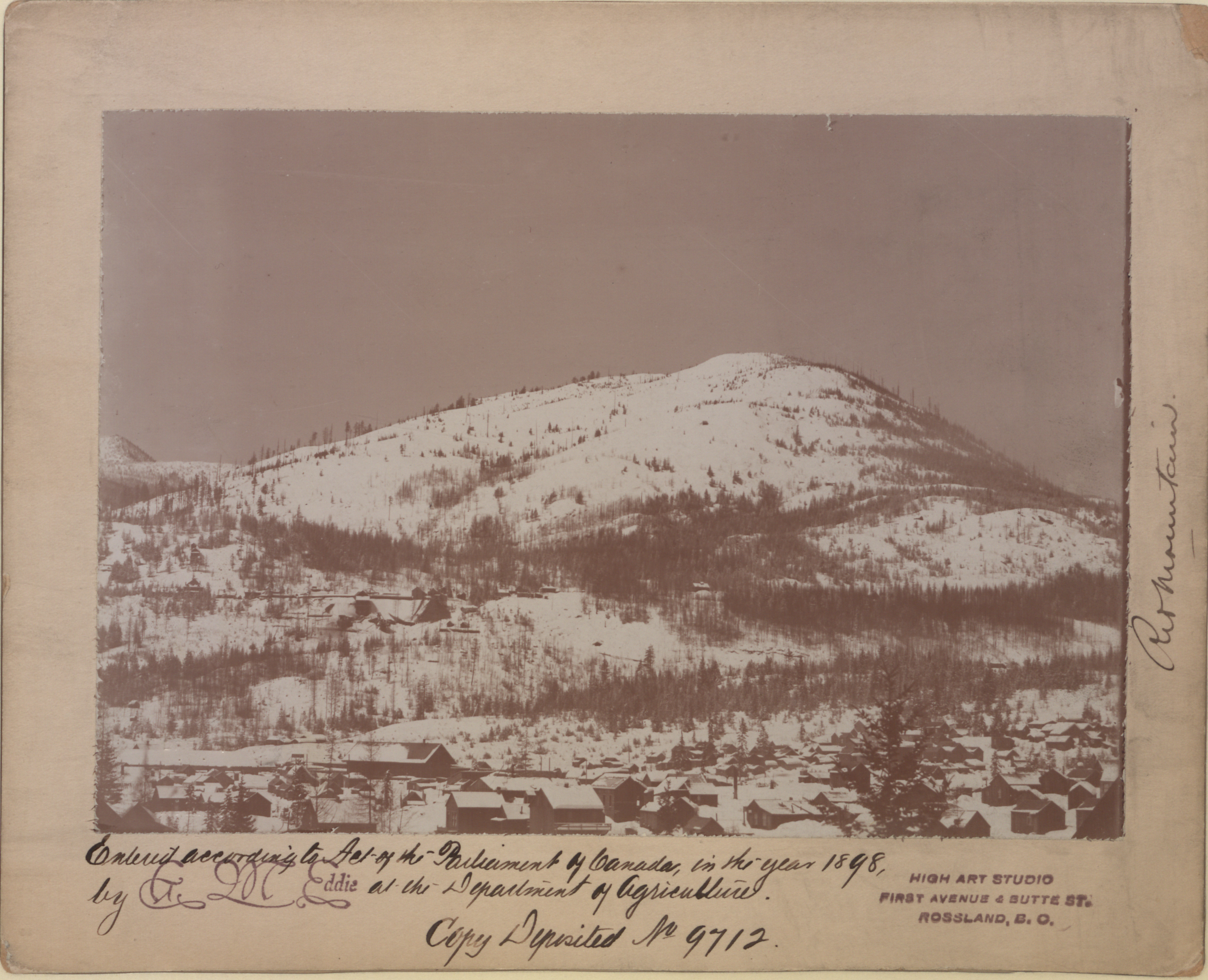 Moonlight view of Red Mountain at Rossland, British Columbia. View looking across the snow-covered town towards the hill beyond. Joins with print 4 to form a panoramic view.